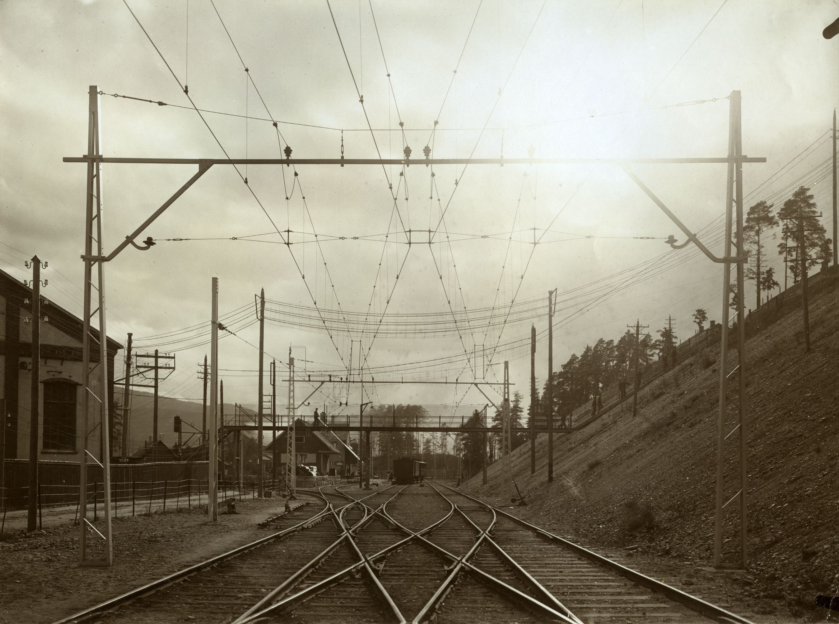 Notodden Station on the Tinnoset Line, Norway Arkivreferanse: Riksarkivet, PA-1364_U5_2_007.